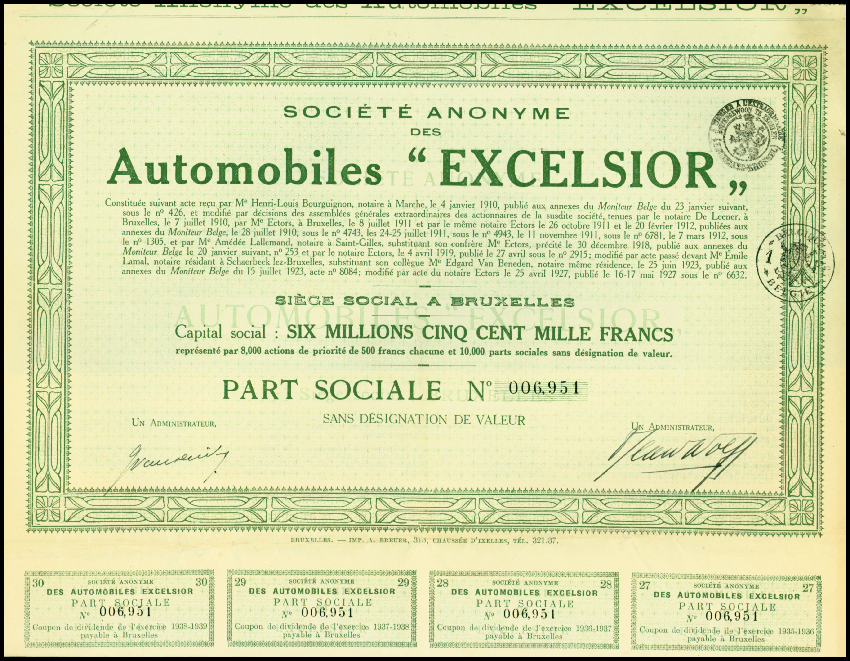 Part Sociale of the SA des Automobiles "Excelsior", issued 17. May 1927